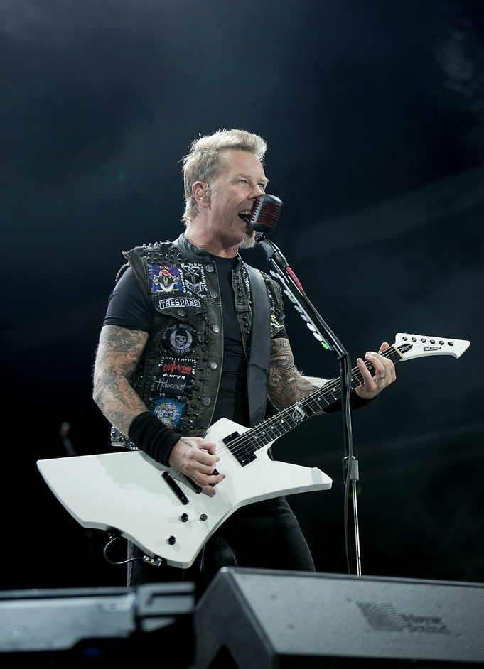 James Hetfield performing live with Metallica at Paris, France